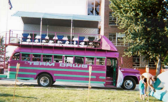 I created this file.